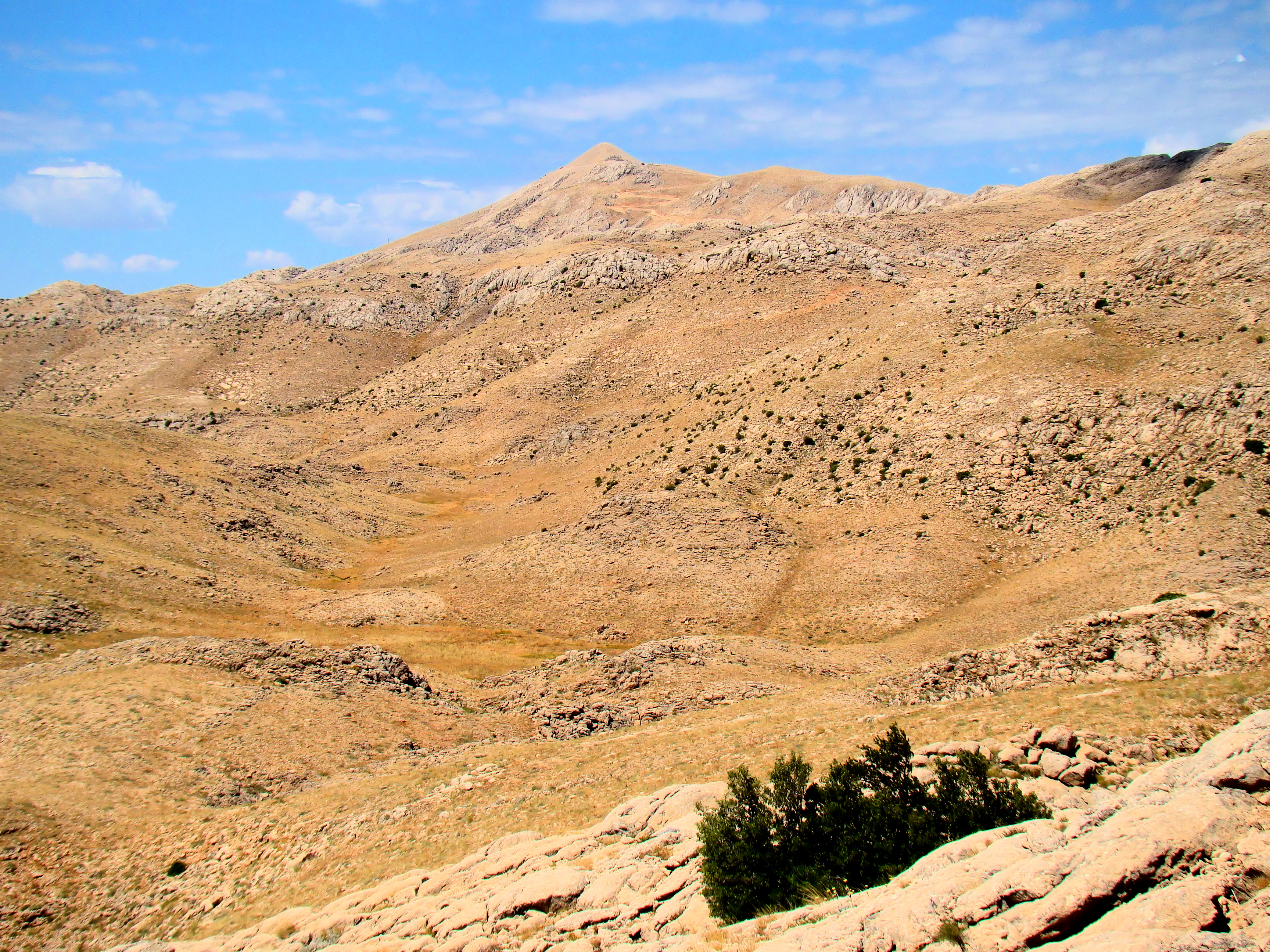 The peak of Mount Nemrut as seen from a distance of 4.5 kilometres from the north-east. The landscape is unforgiving, with little water available (covered in snow during winter) and rough, sharp stones everywhere. Horses, goats, sheep and cows graze here with shepherds to take them safely from one patch of grass to the next.